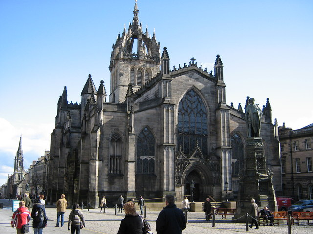 St. Giles' Cathedral Also known as the 'High Kirk' of Edinburgh.